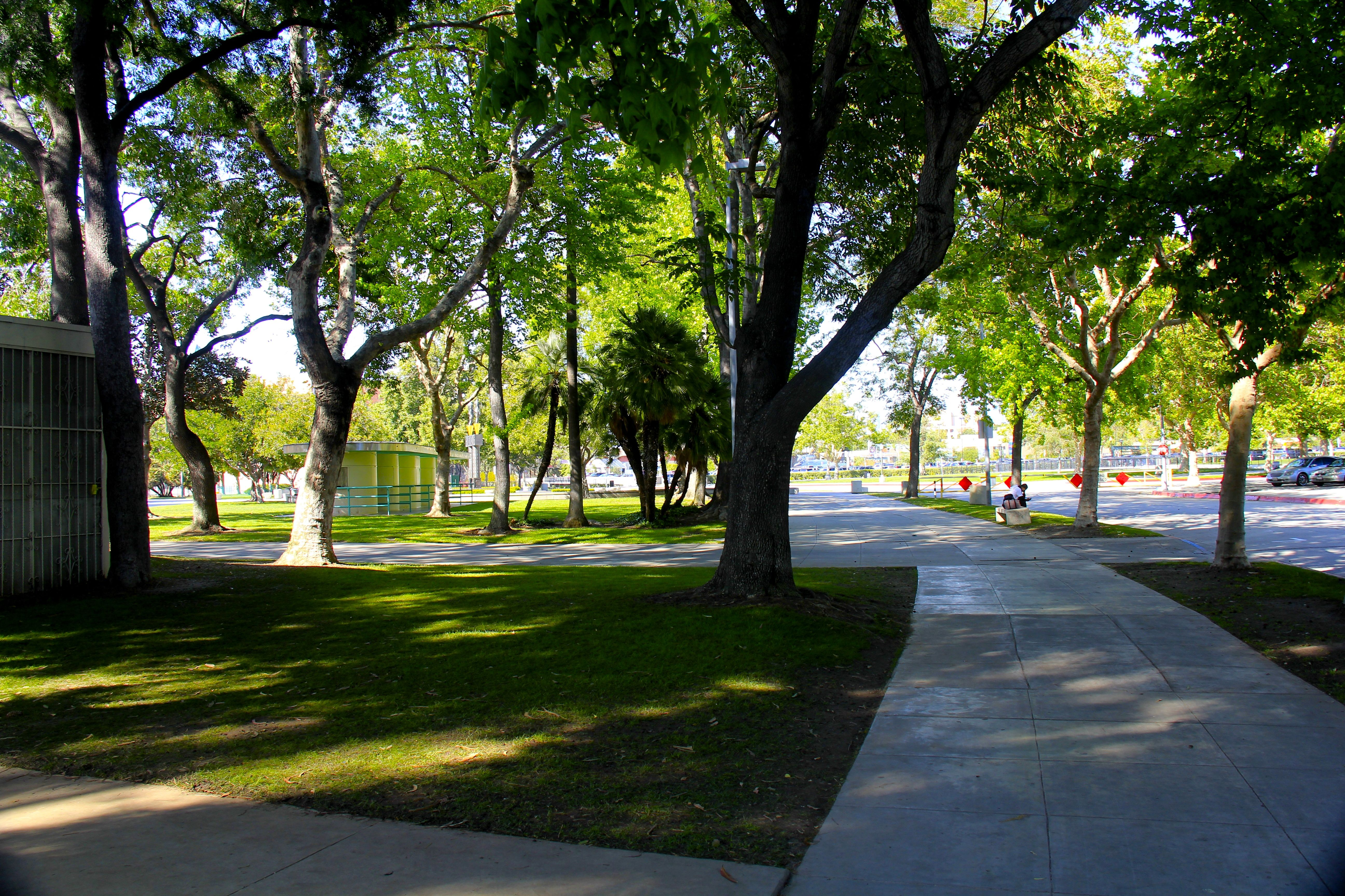 Los Angeles Memorial Coliseum, 3911 S. Figueroa St. University Park